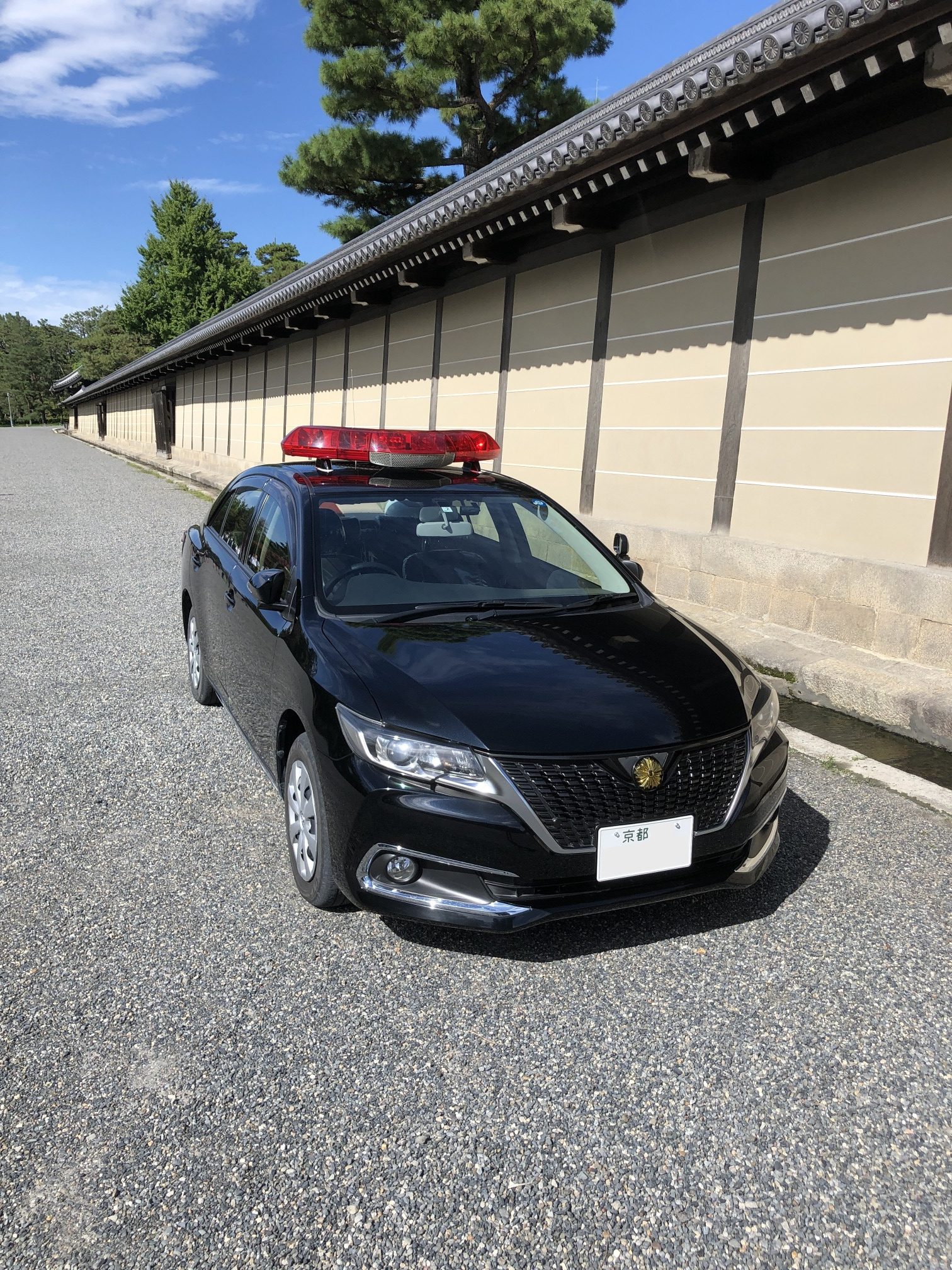 Japanese Imperial Guard car in the Kyoto Imperial Palace